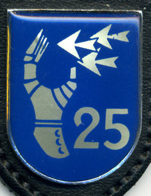 Air Force Anti Aircraft Missile Group 25